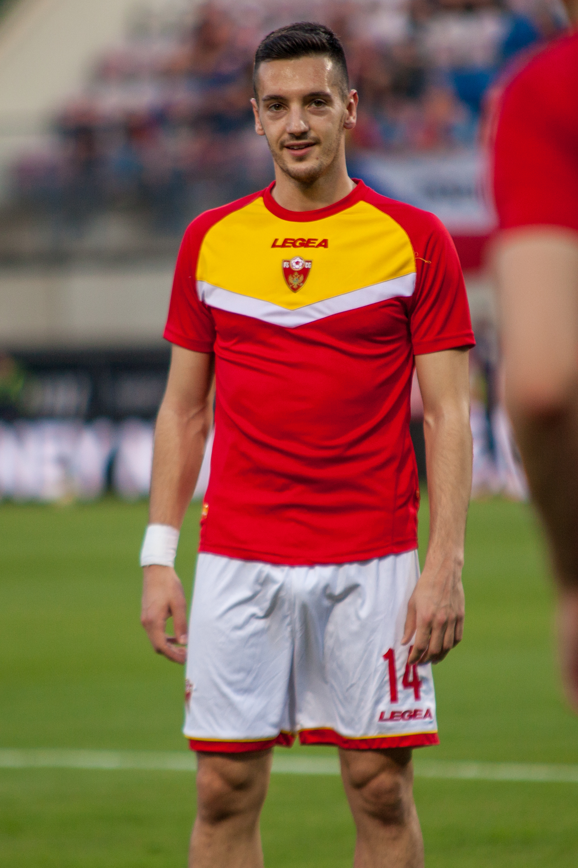 Vukan Savićević at EURO 2020 Qualifying Round Czech Republic-Montenegro (10/6/2019, Ander Stadium, Olomouc) Personality rights warningAlthough this work is freely licensed or in the public domain, the person(s) shown may have rights that legally restrict certain re-uses unless those depicted consent to such uses. In these cases, a model release or other evidence of consent could protect you from infringement claims.